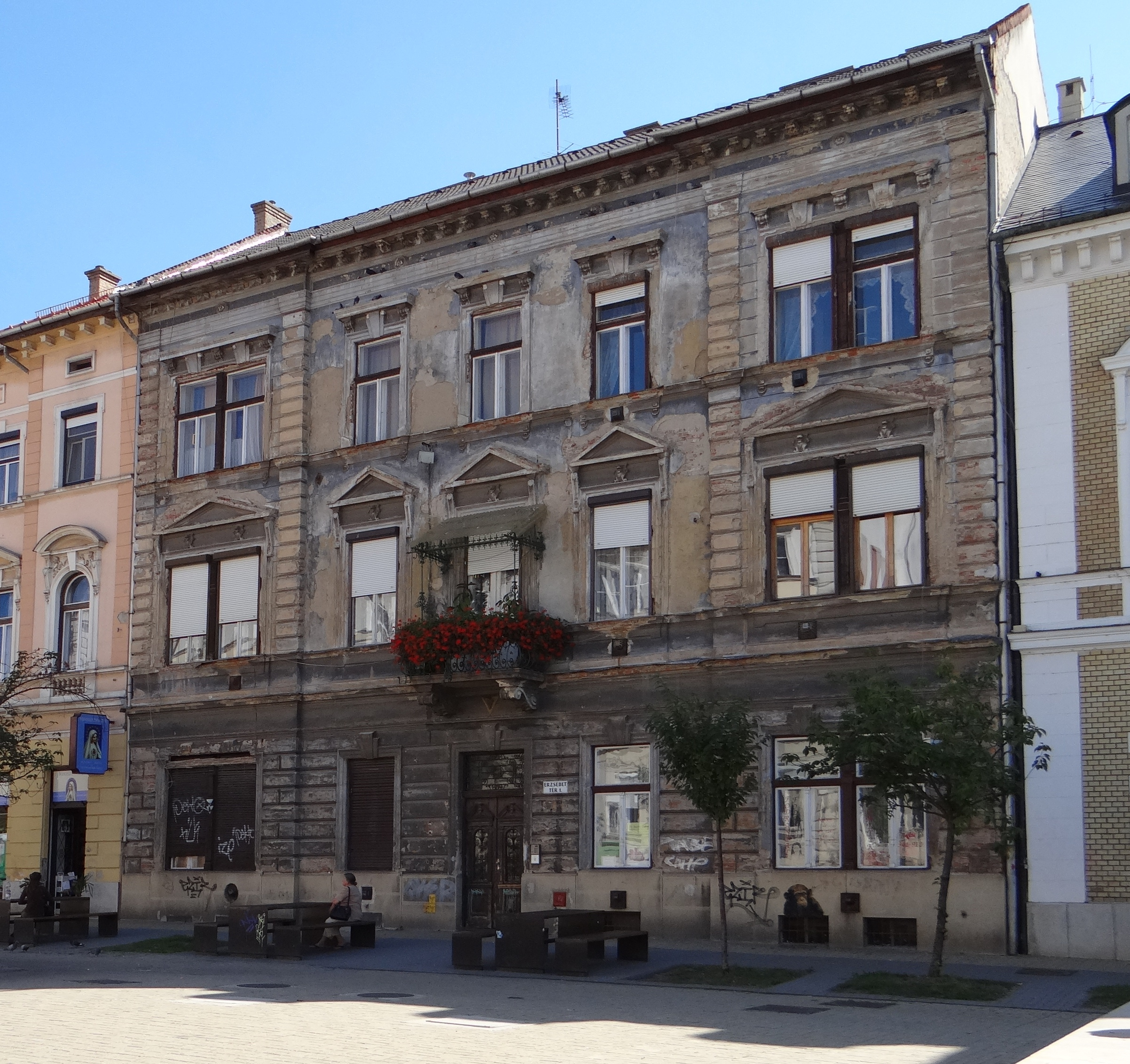 Pataky–Argay-house, 1 Erzsébet Square, Miskolc, Hungary